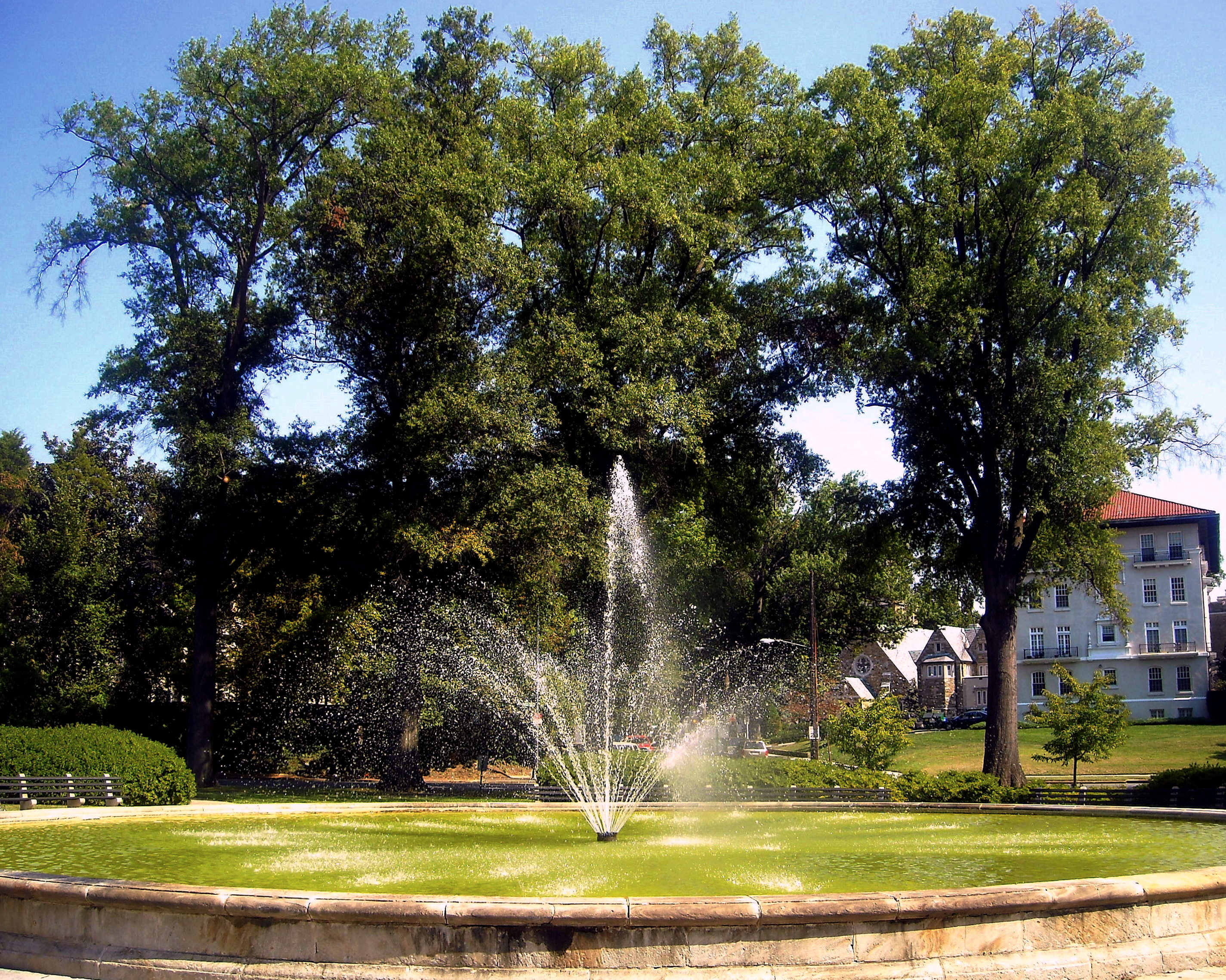 The Francis Griffith Newlands Memorial Fountain located at Chevy Chase Circle on the Washington, D.C./Maryland border. It was designed by Edward Wilton Donn in 1933, and was erected in 1938. It is listed on the National Register of Historic Places.